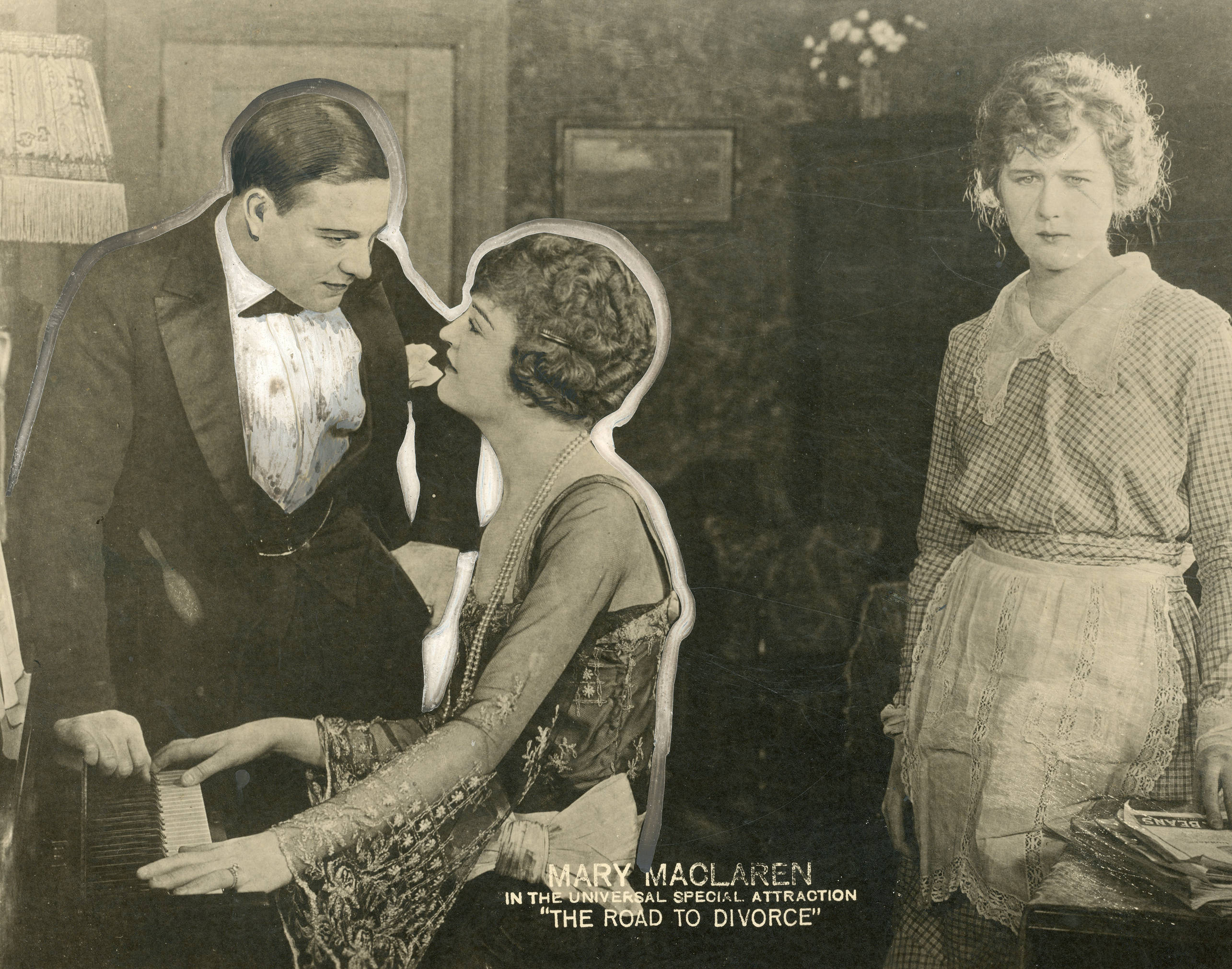 A scene from "The Road to Divorce," which played at the Colonial Theater, Seattle. Includes Mary MacLaren. Date stamped Ap. 30, 1920. Subjects: motion pictures, actresses